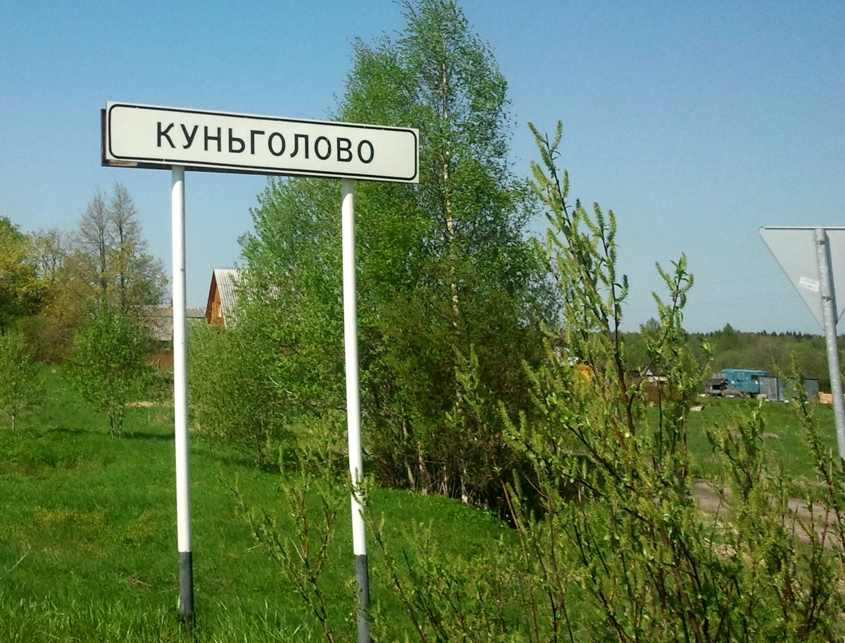 Kungolovo village. Tosno district, Leningrad oblast, Russia